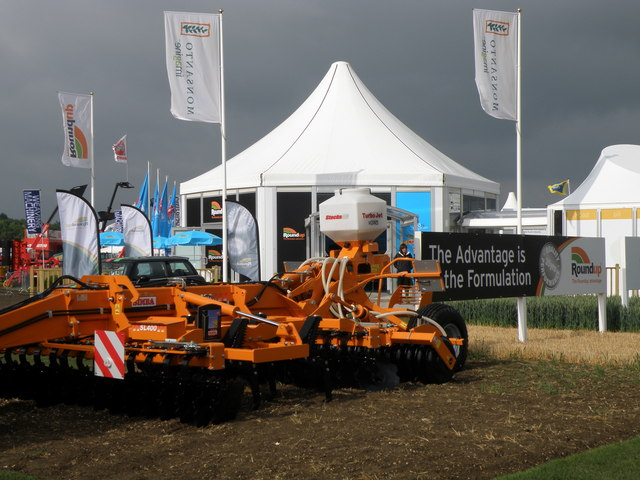 A heavy Simba SL400 disc harrow and Monsanto at Cereals 2009, Vine farm, Wendy. Agricultural giant Monsanto promoting the benefits and uses of their 'Roundup' Glyphosate herbicide. – After weeks of fine dry weather the two day Cereals event for arable farmers was held under leaden sky's and when the sun shone heavy rain showers developed. The event rotates between Lincolnshire SK9751 : Cereals 2008 and Cambridgeshire on alternate years. The format is much the same between both sites.The arable agricultural industry comes together to display crop science, digital technologies, machinery and allied trades. One of the best trade shows around with an attendance of around 25,000 people over two days.